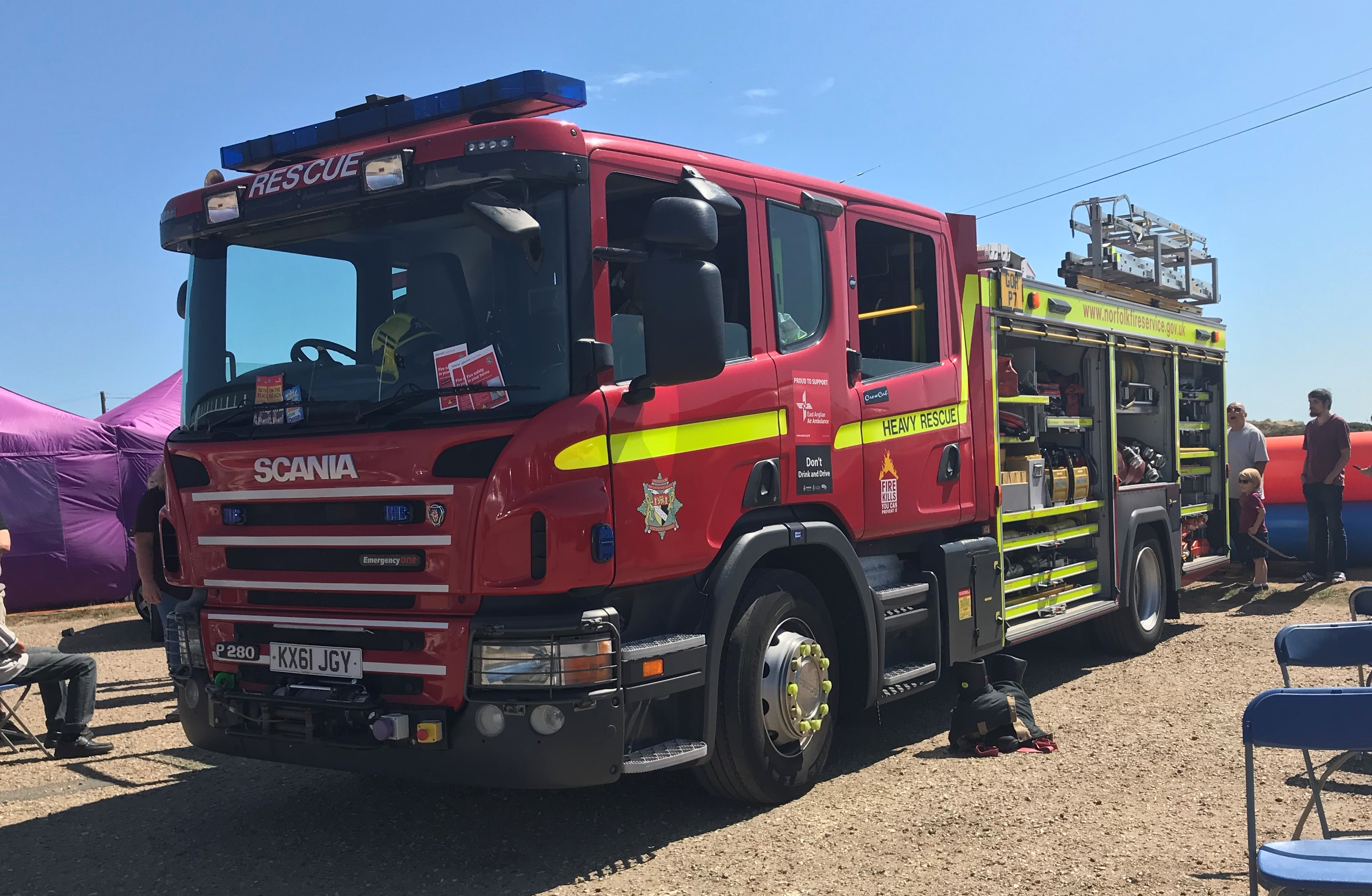 One of Norfolk's Scania Heavy Rescue Units in Caister